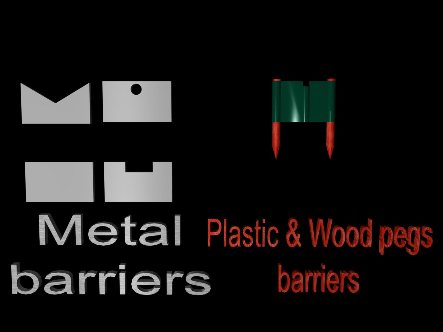 types of barrier for leaky dams